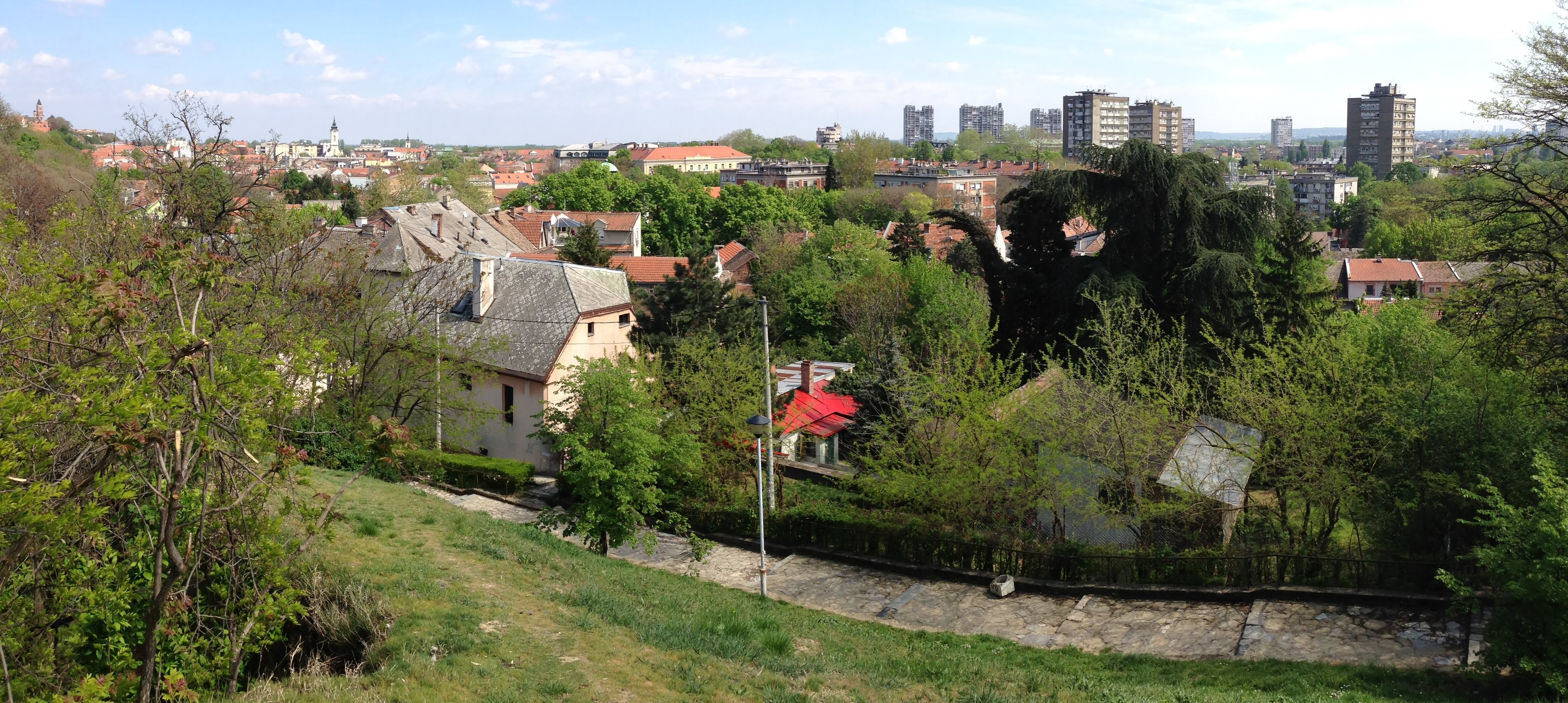 Calvary Park. Zemun, Serbia